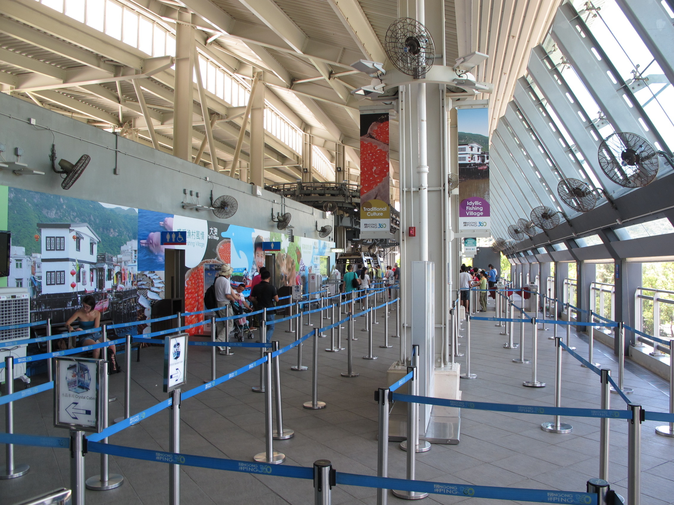 Tung Chung Cable Car Terminal Waiting area